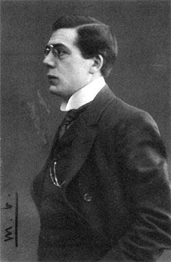 Milan Begović, Croatian writer, at a younger age